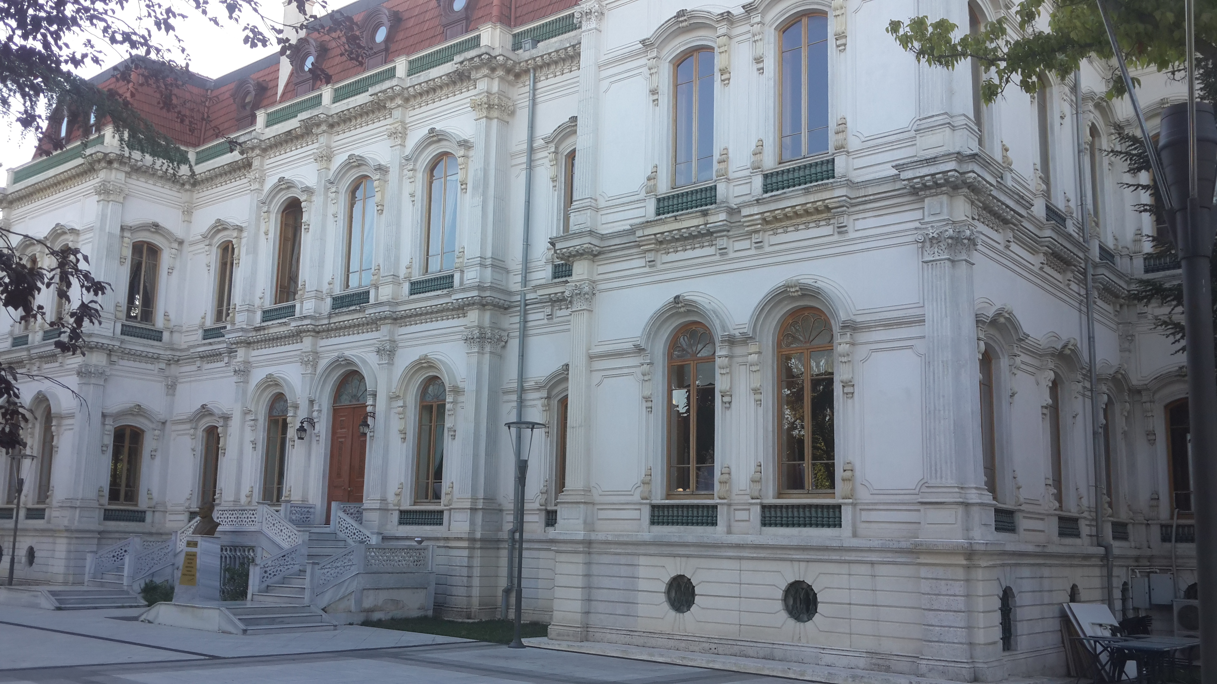 ADİLE SULTAN KASRI (Some films of the series HABABAM SINIFI were filmed here.)